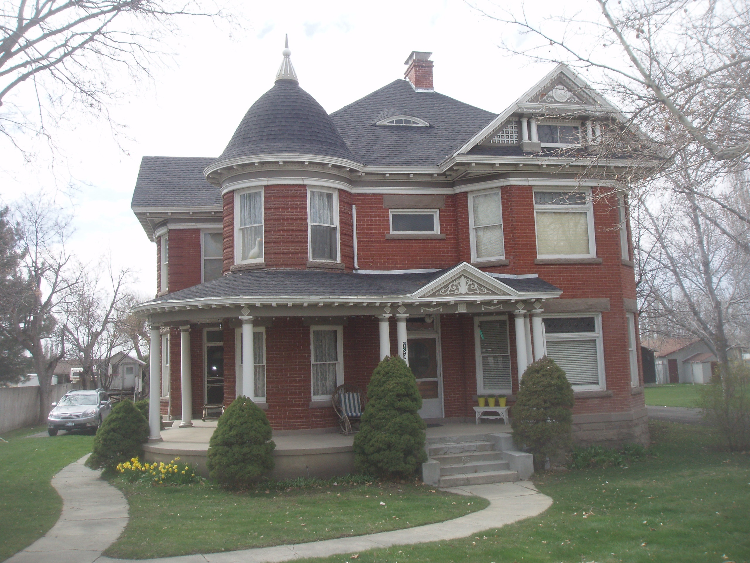 A house in the West Bountiful Historic District, in West Bountiful, Utah, United States.